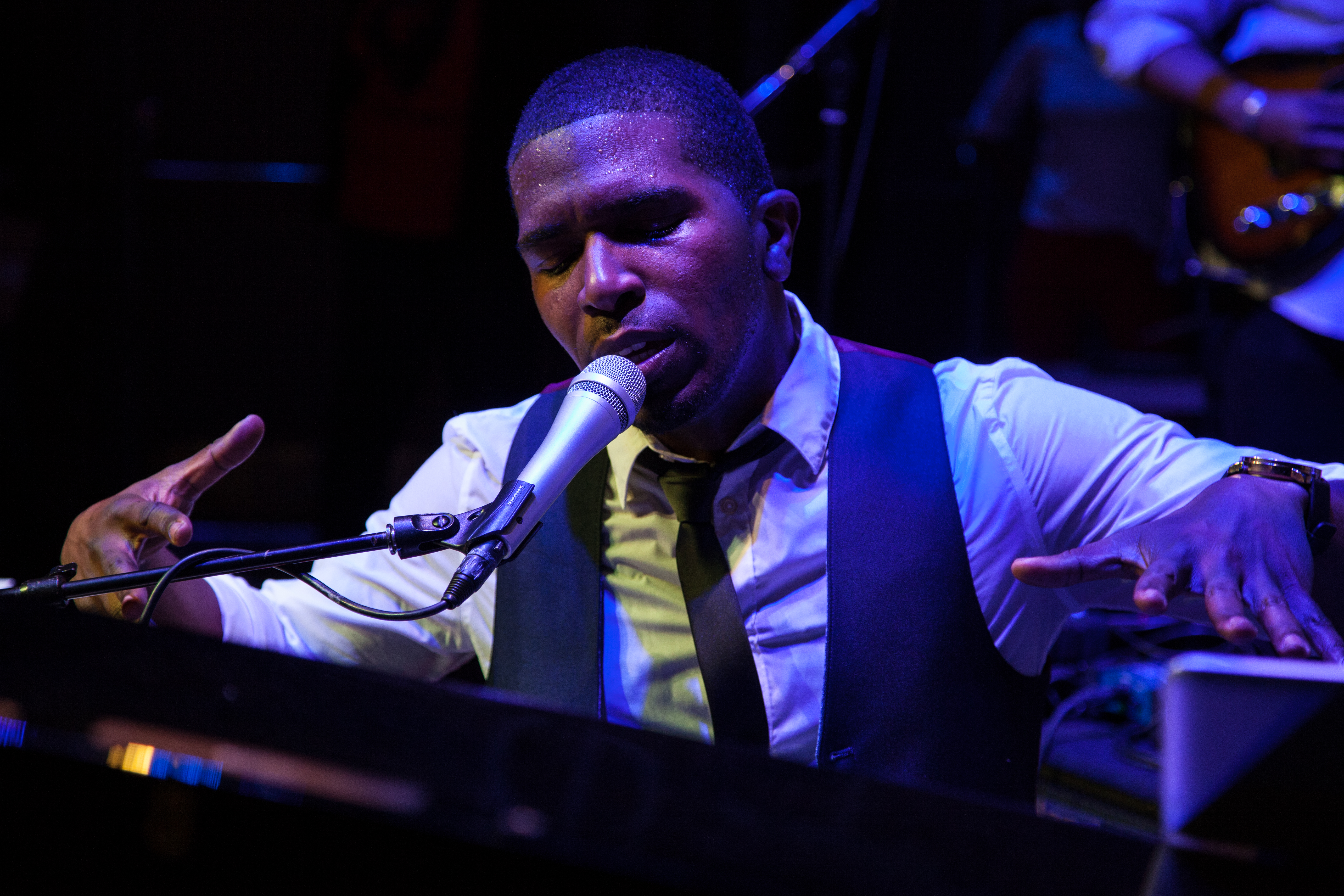 Chris Rob Rae Maxwell 12APR2014